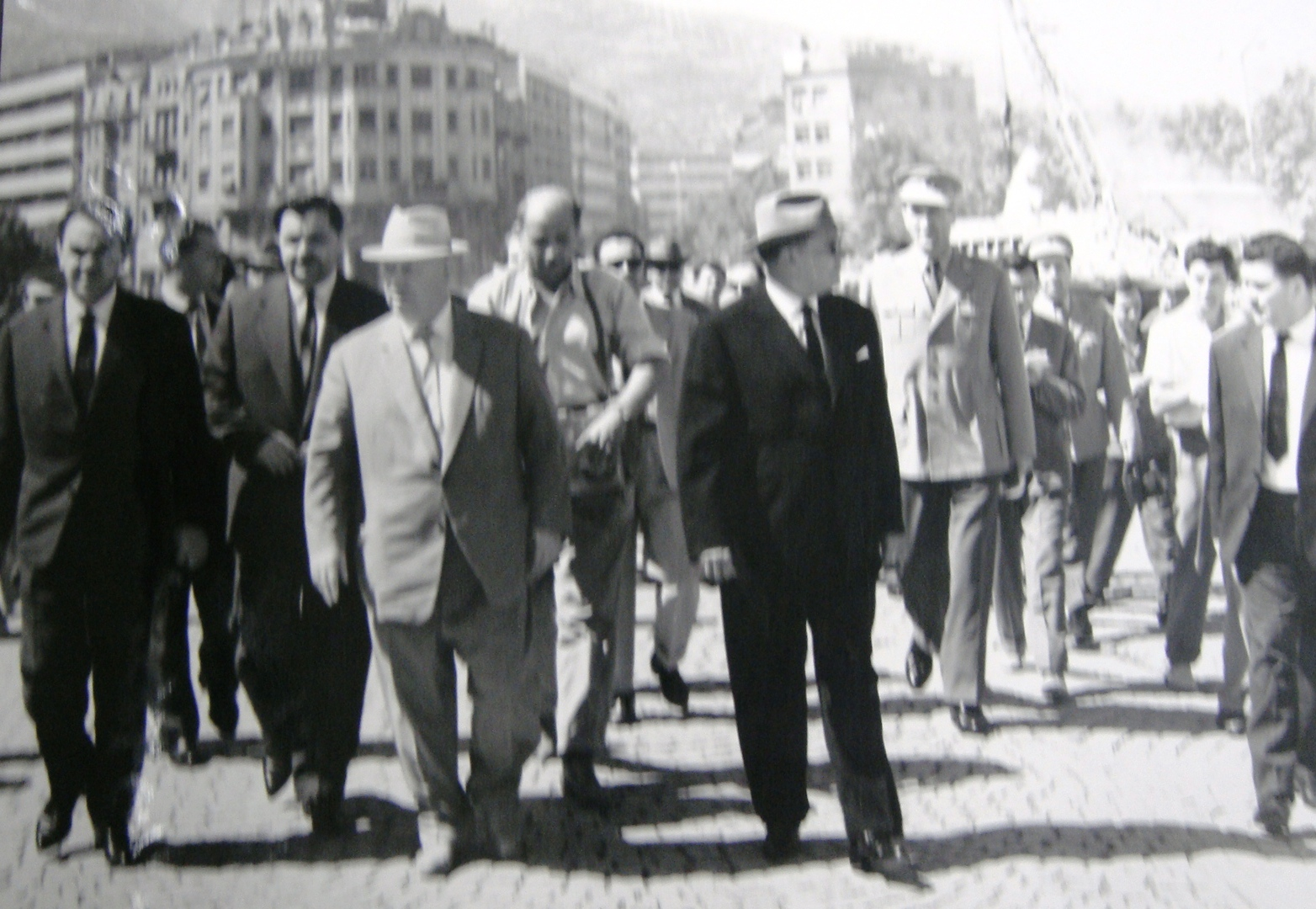 1963 Skopje earthquake: Josip Broz Tito, Nikita Khrushchev and Krste Crvenkovski sight-seeing the rubble in the center of Skopje, at the "Marshal Tito" Square. This media file is produced by Wikipedian in Residence in Category:Wikipedian in Residence at DARM in 2016.